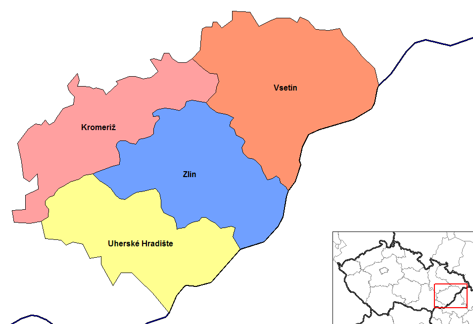 Map of the districts of Zlin region of the Czech Republic. Created by Rarelibra 15:31, 2 January 2007 (UTC) for public domain use, using MapInfo Professional v8.5 and various mapping resources.